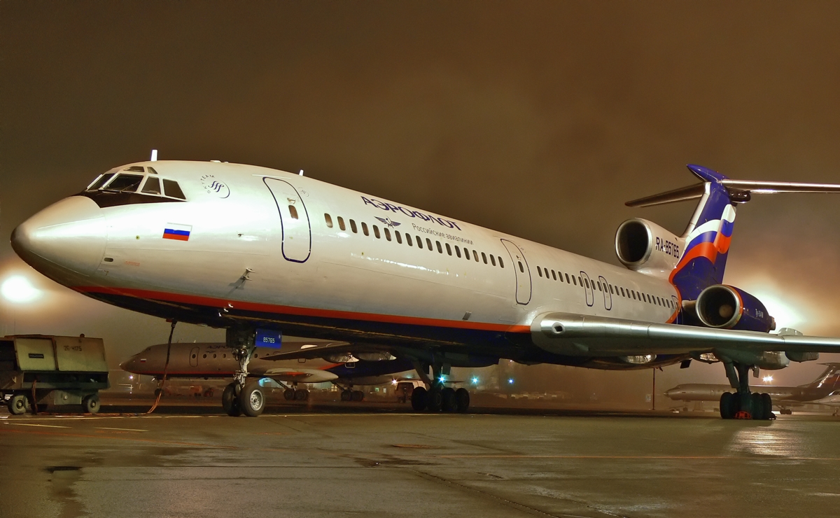 "Aeroflot" Tu-154m RA-85765